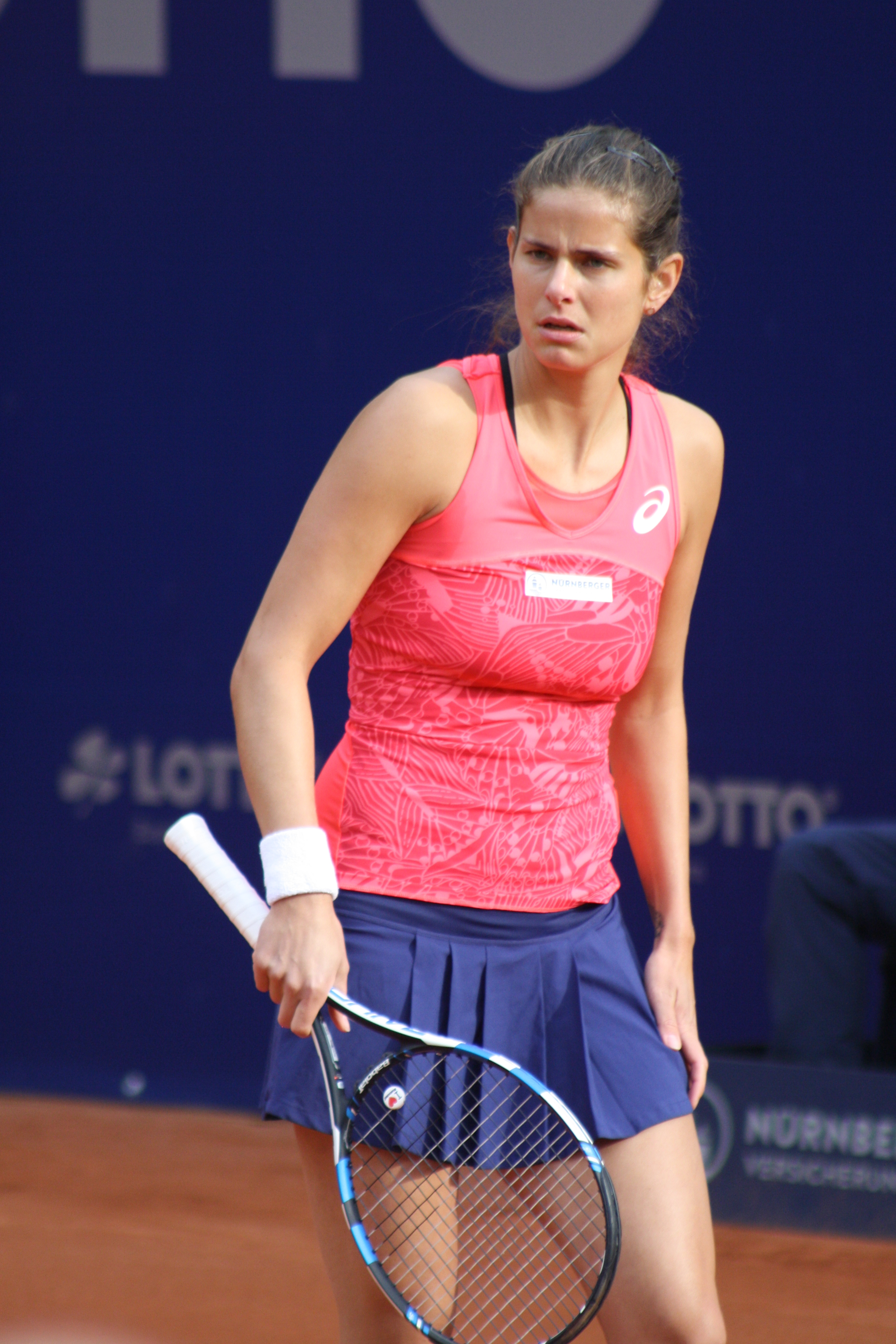 Julia Görges, May 2017